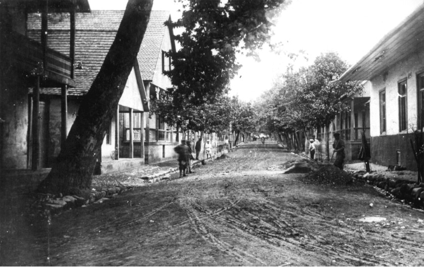 Street in Helenendorf (today - Goygol in Azerbaijan)